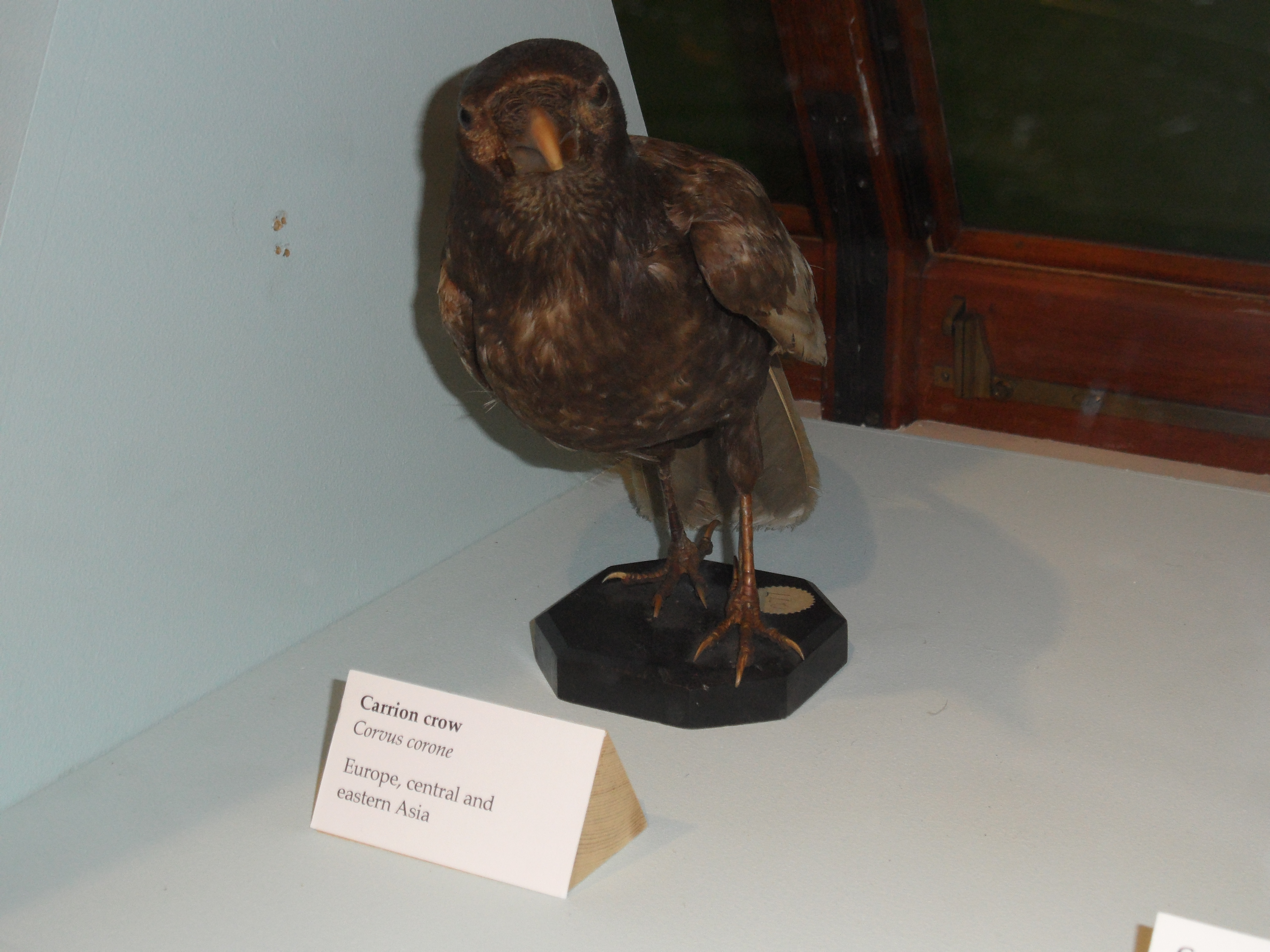 An erythristic carrion crow